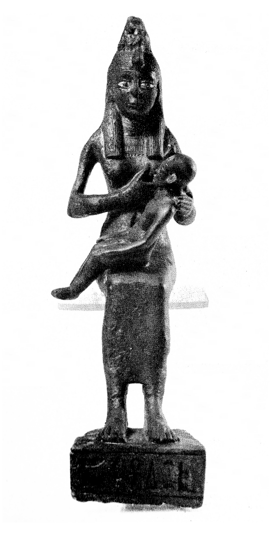 Photograph